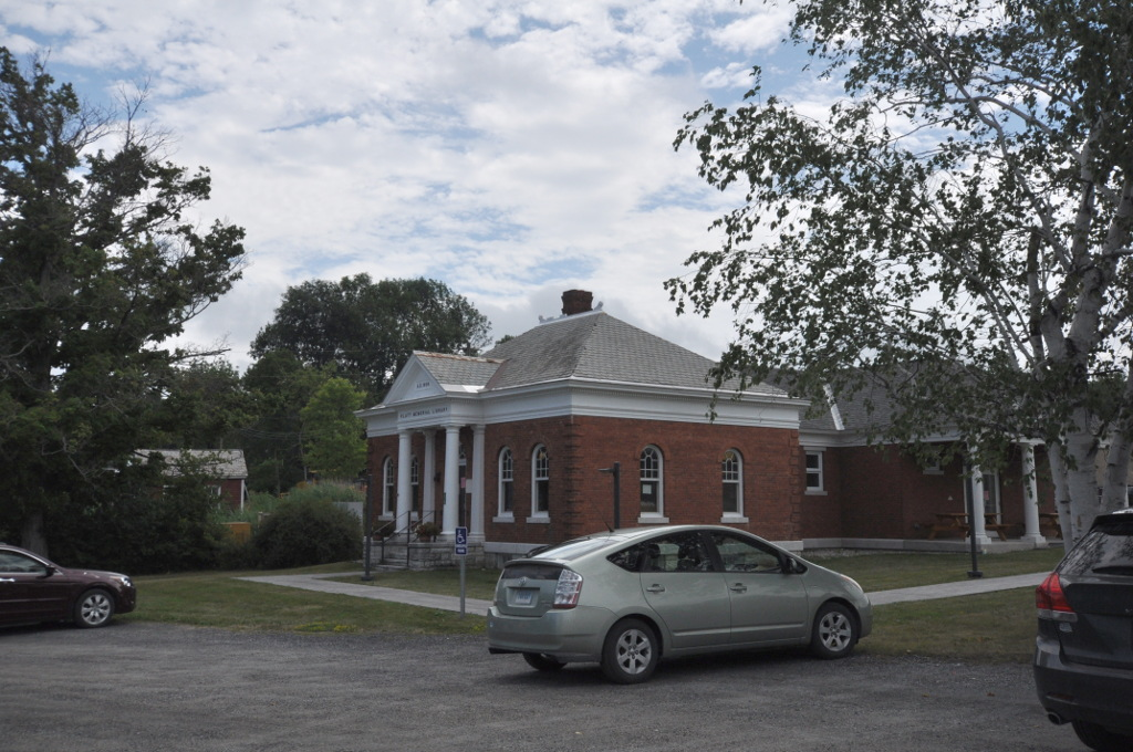 Public library, Shoreham, Vermont.